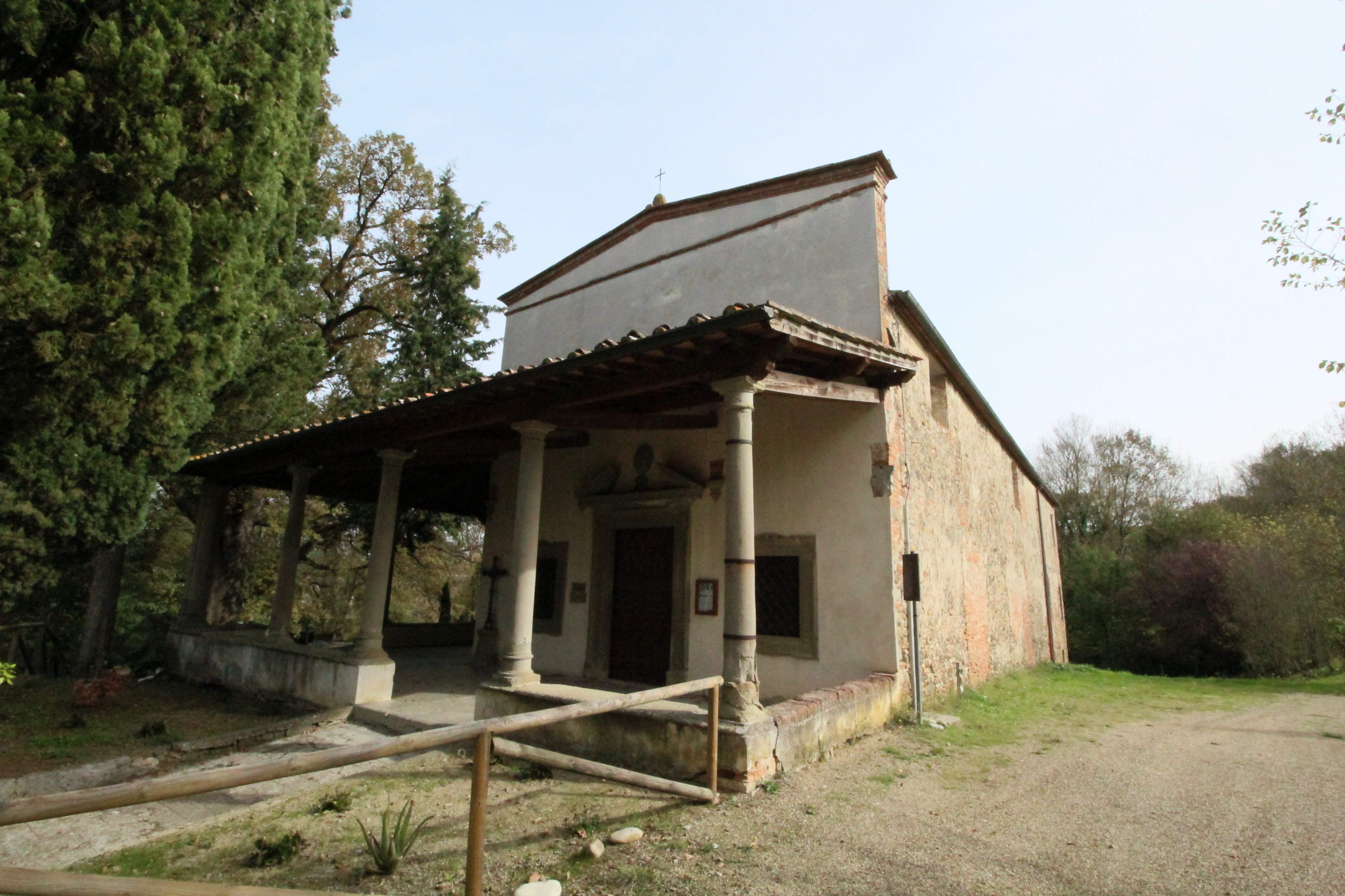 Church/Sanctuary Santa Maria in Valle, outside Laterina, Province of Arezzo, Tuscany, Italy